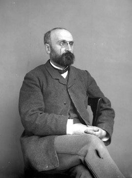 Eugène Trutat's photographic self-portrait